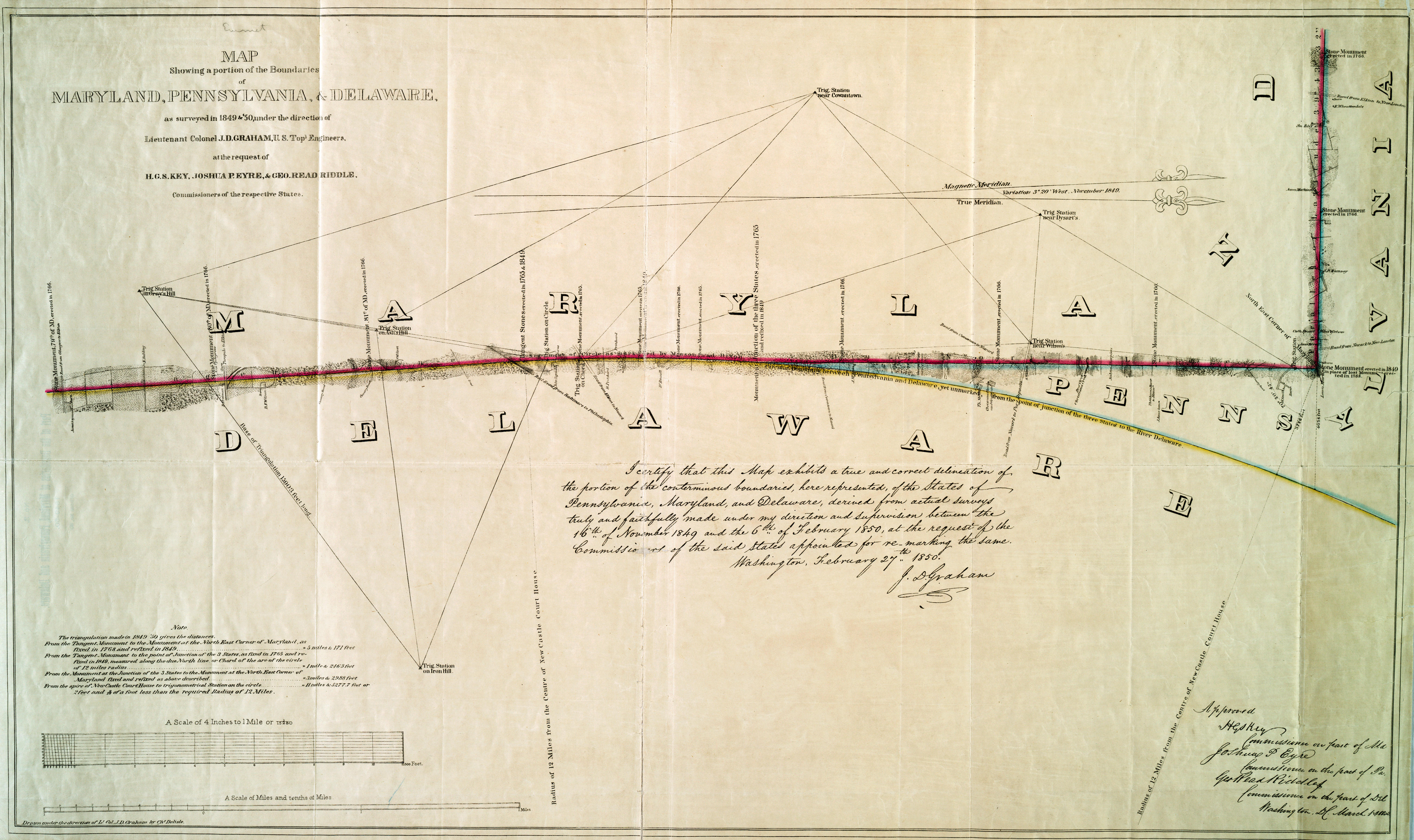 Map showing a portion of the boundaries of Maryland, Pennsylvania, & Delaware : as surveyed in 1849 & '50, under the direction of Lieutenant Colonel J.D. Graham, U.S. Topl. Engineers, at the request of H.G.S. Key, Joshua P. Eyre, & Geo. Read Riddle, commissioners of the respective states